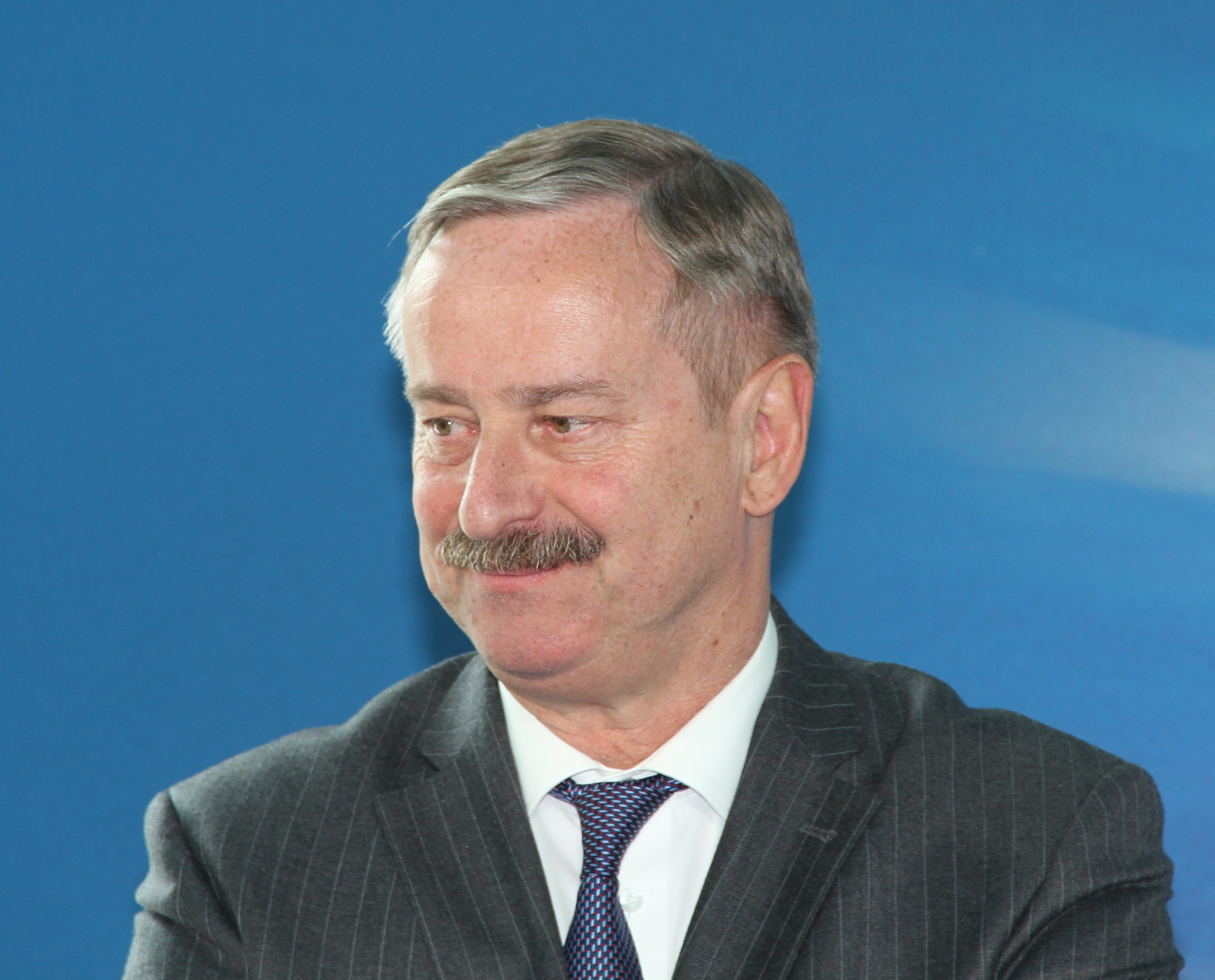 Siim Kallas, Vice President of EU and Commissaire for Traffic